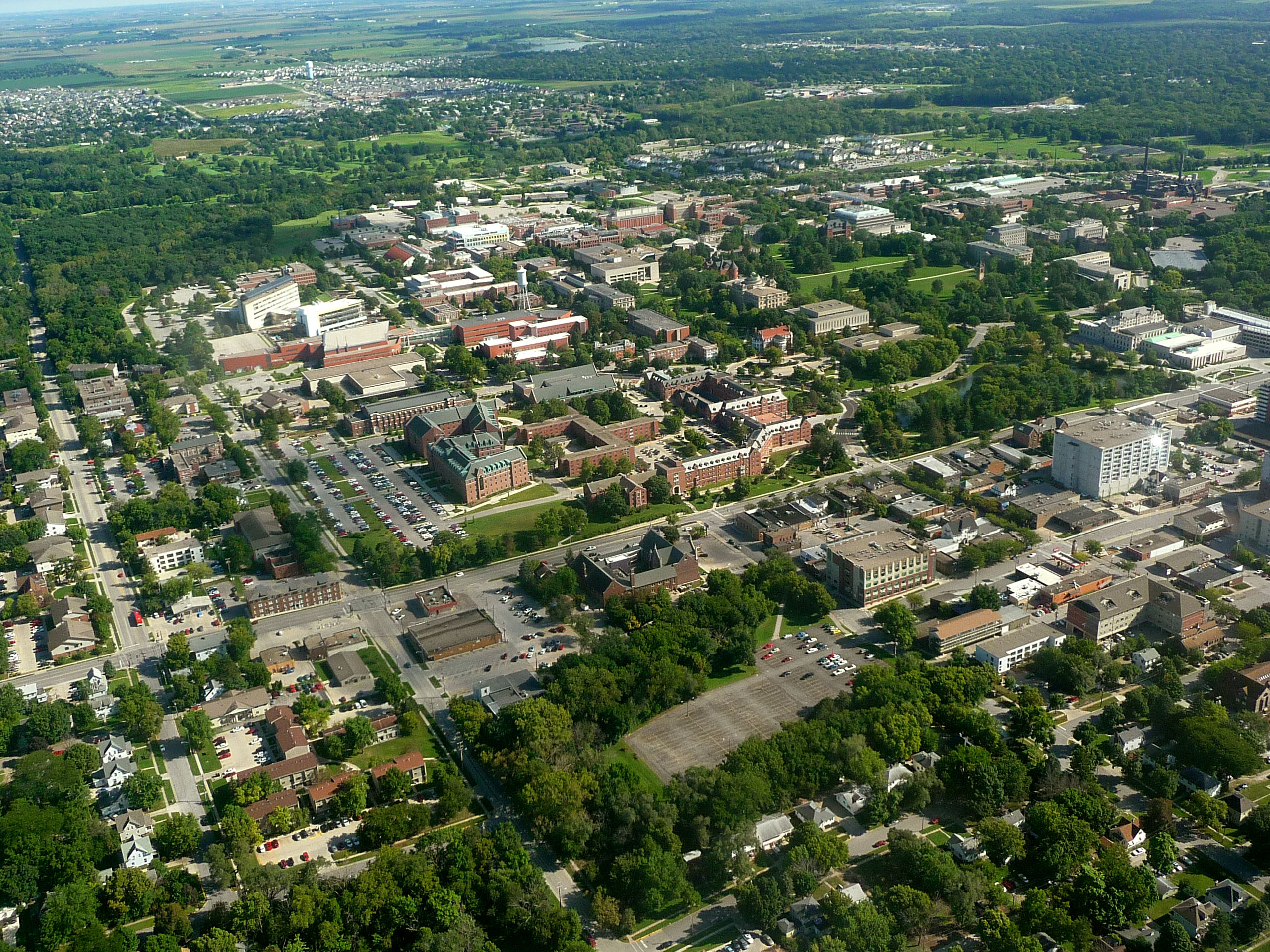 Bird view of ISU campus in 2009